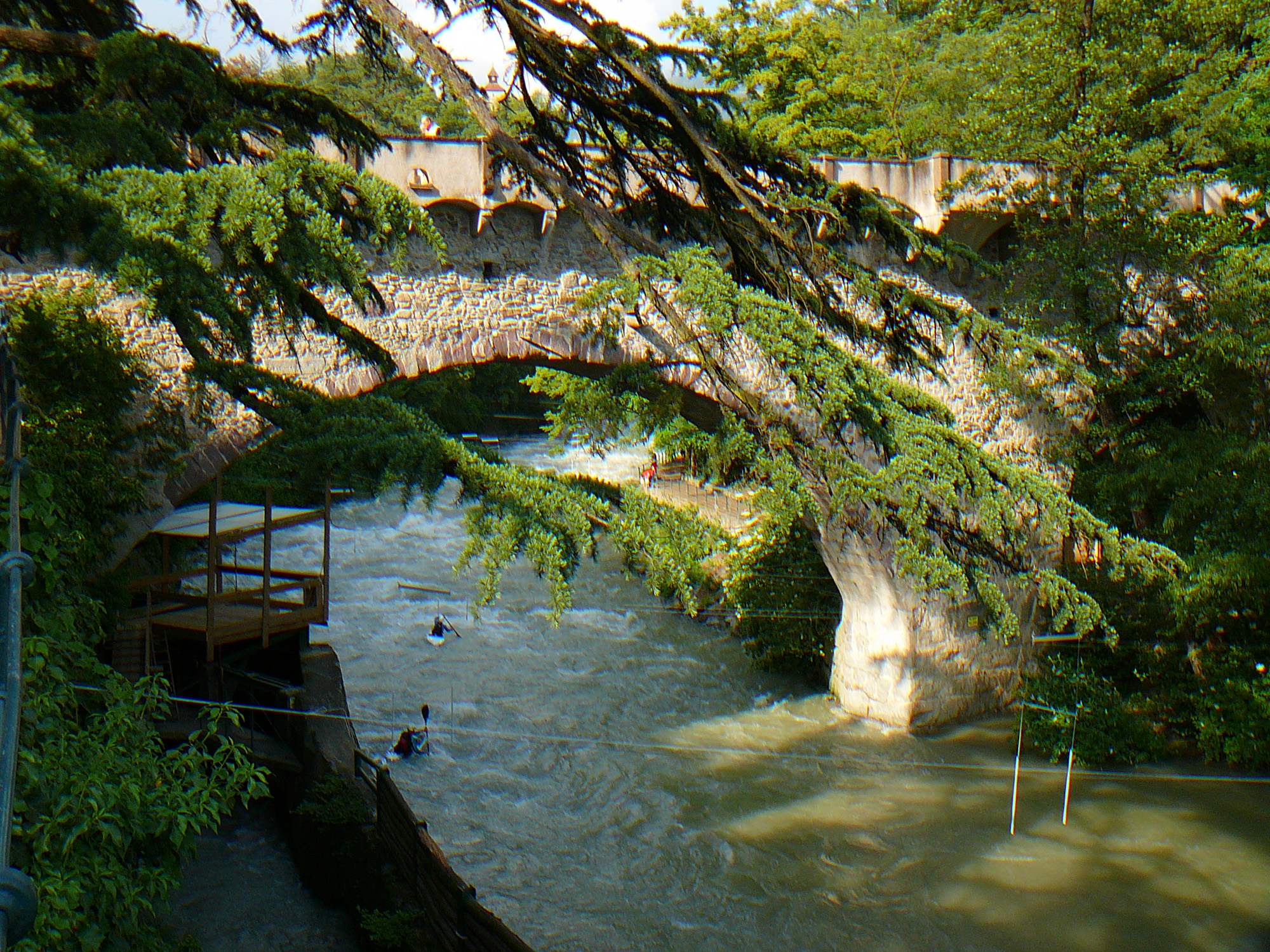 The Steinerner Steg (Stone Footbridge) over the Passer in Meran, South Tyrol. View at downstream side.